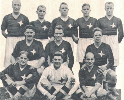 HIFK Helsinki squad that won Finnish football championship in 1931. Bottom row (from left): Frans Karjagin, Gunnar Närhinen, Ragnar Lindbäck Middle row (from left): Alfons Nylund, Jarl Malmgren, Leo Karjagin Top row (from left): Gunnar Åström, Ernst Grönlund, Albin Lönnberg, Holger Salin, Olof Strömsten